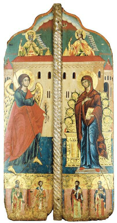 Royal Doors from Saint George Church in Nigrita, 18th Century